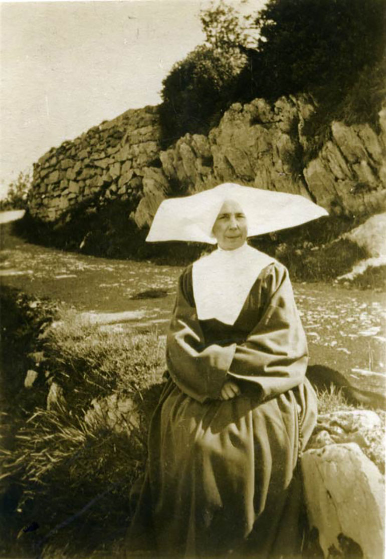 family photo